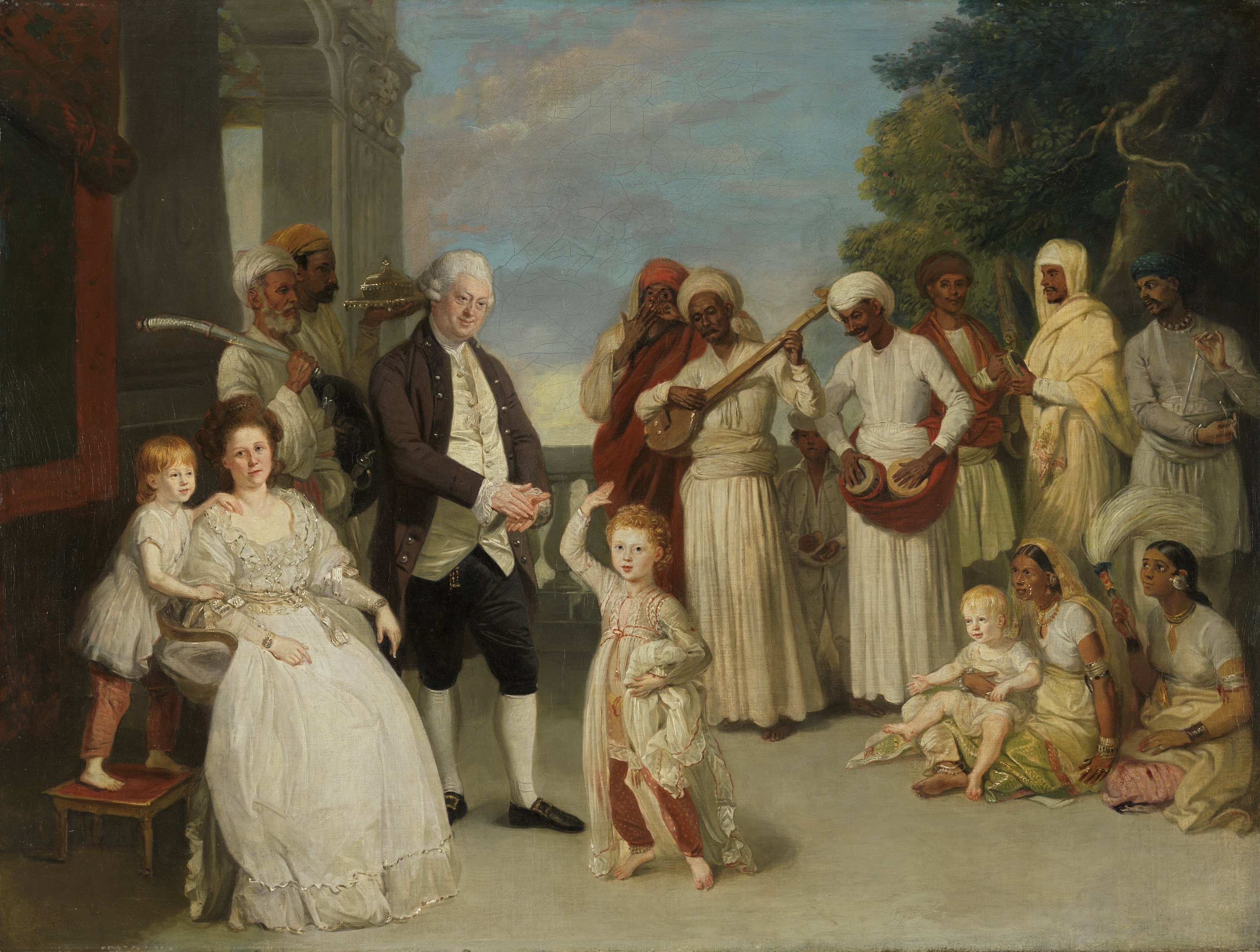 Painting by Johann Zoffany of the family of Chief Justice Elijah Impey and Mary Impey in Calcutta, India in 1783. Marian Impey (b. 1778) is shown dancing to Indian music.